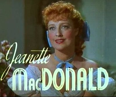 Cropped screenshot of Jeanette MacDonald from the trailer for the film Bitter Sweet